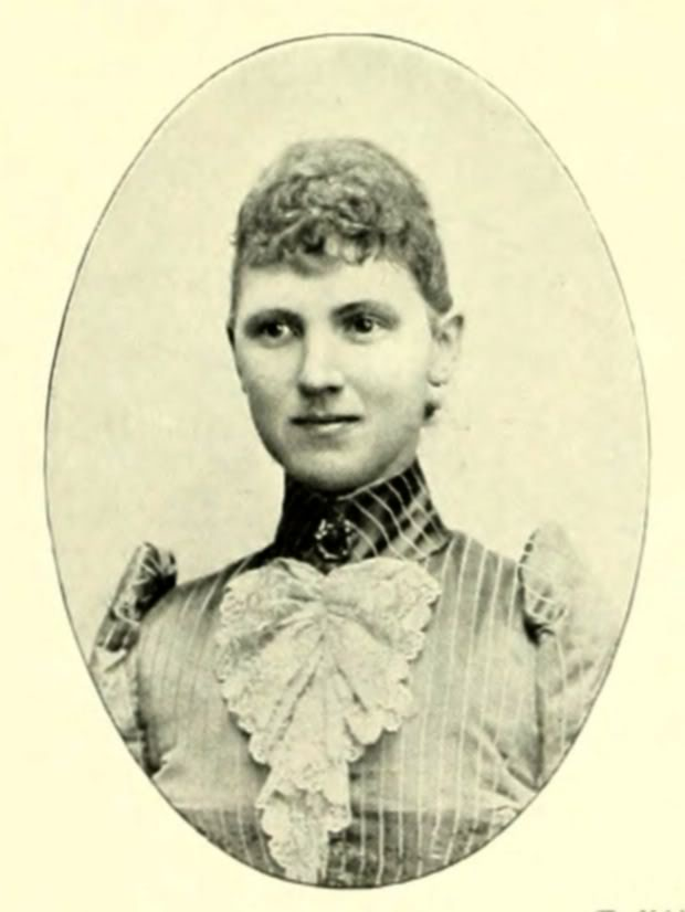 Princess Louise of Schleswig-Holstein-Sonderburg-Glcksburg